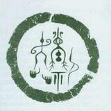 a symbol of the chinese surname zhao